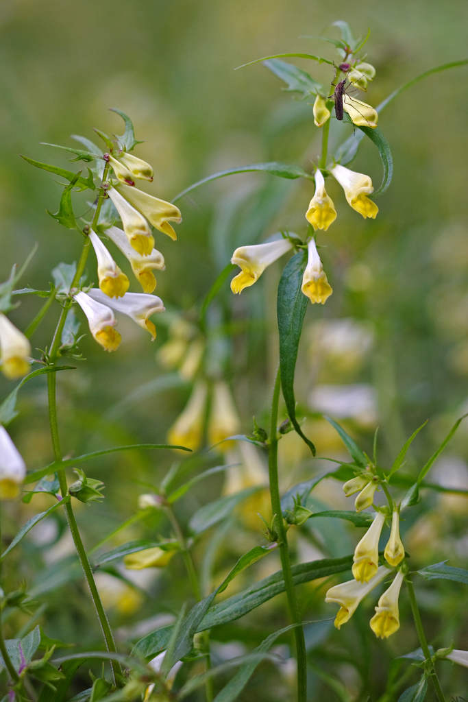 Common Cow-wheat (Melampyrum pratense) Dysmorodrepanis 11:03, 28 May 2008 (UTC)